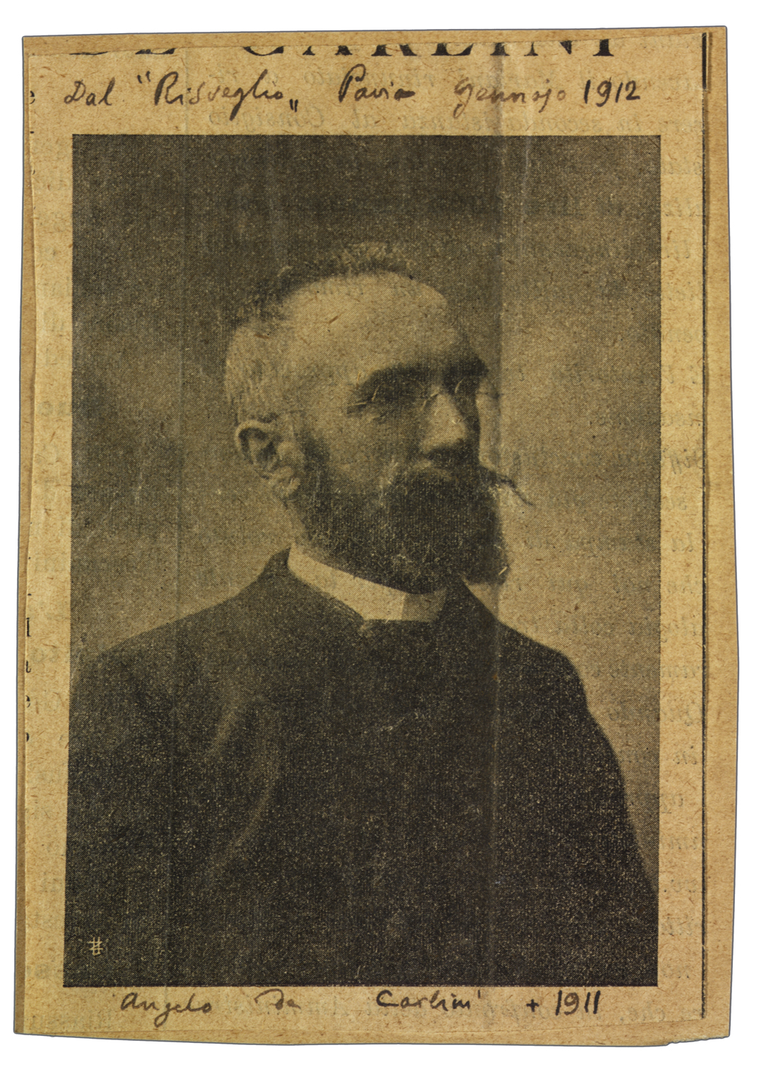 Angelo De Carlini